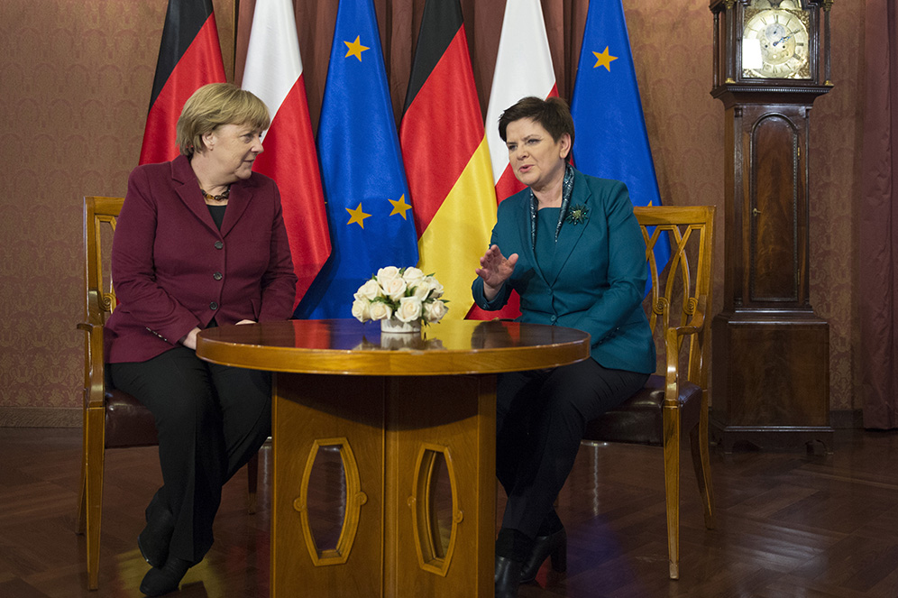 Meeting of German Chancellor Angela Merkel and Polish Prime Minister Beata Szydło in Warsaw